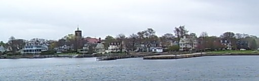 This is a picture I took on April 28, 2008.